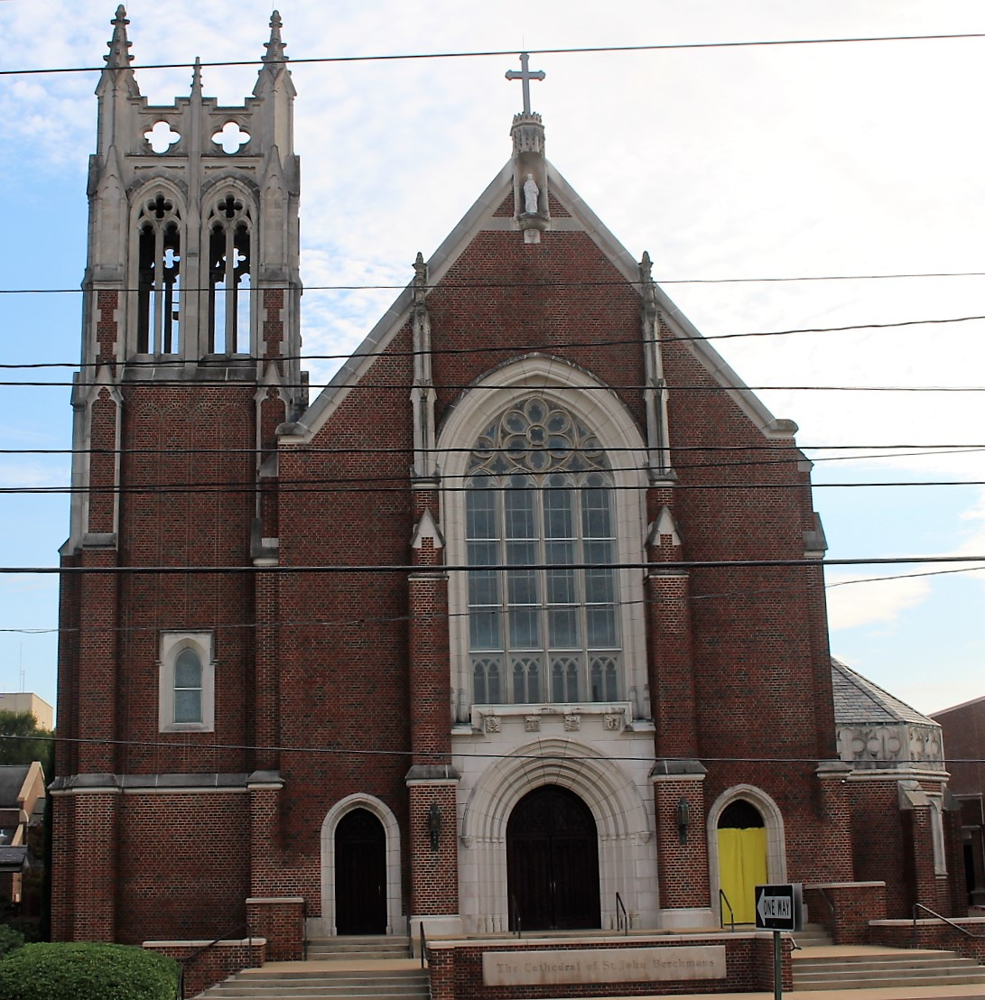 St. John Berchman Cathedral in Shreveport, Lousiana.